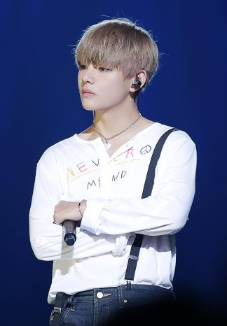 V (Kim Tae-hyung) at The Mood For Love Concert in Kobe, on March 23, 2016.